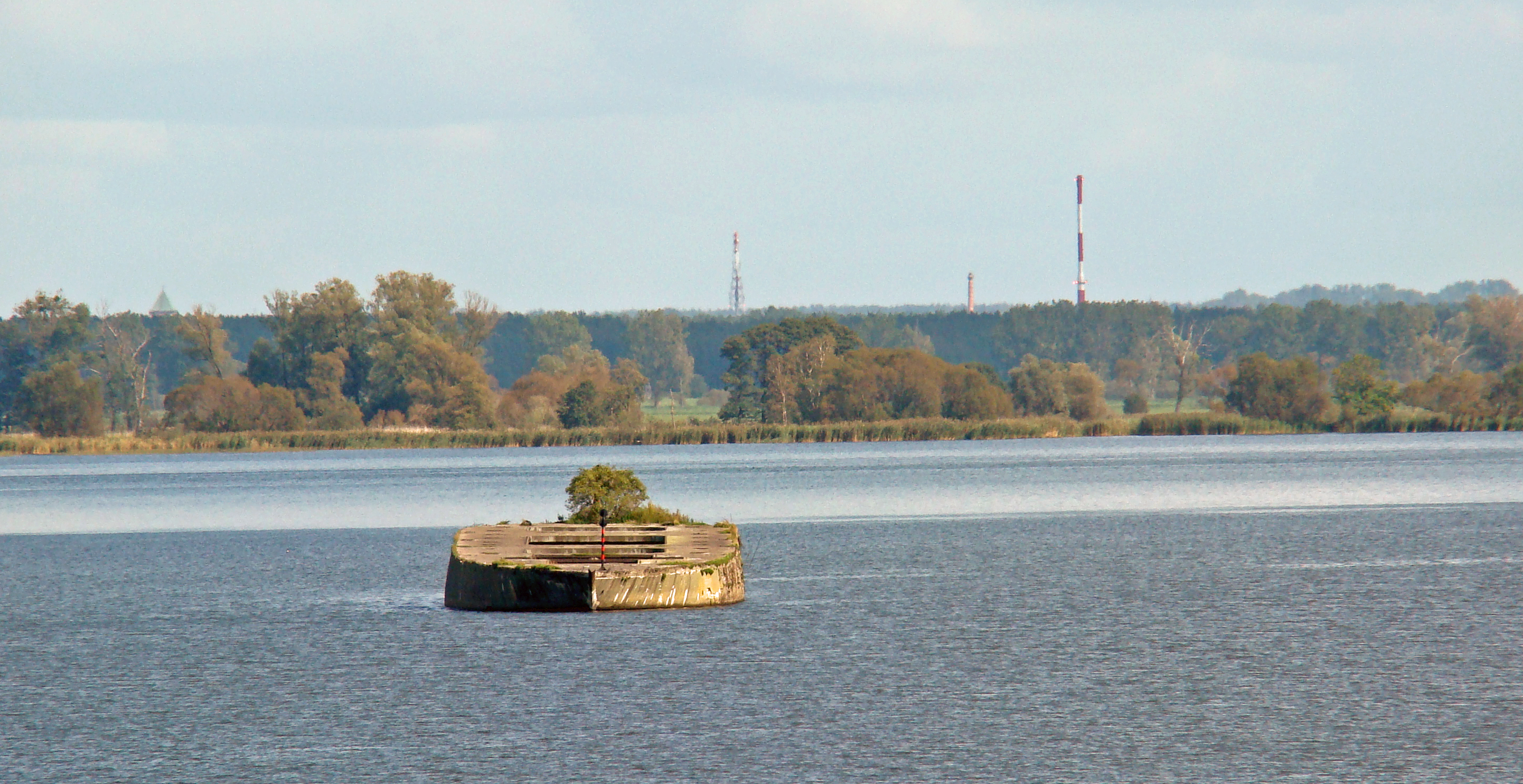 Hulk (wreck) of German concrete ship Urlich Finsterwalde in the north part of Dabie See in Szczecin, Poland